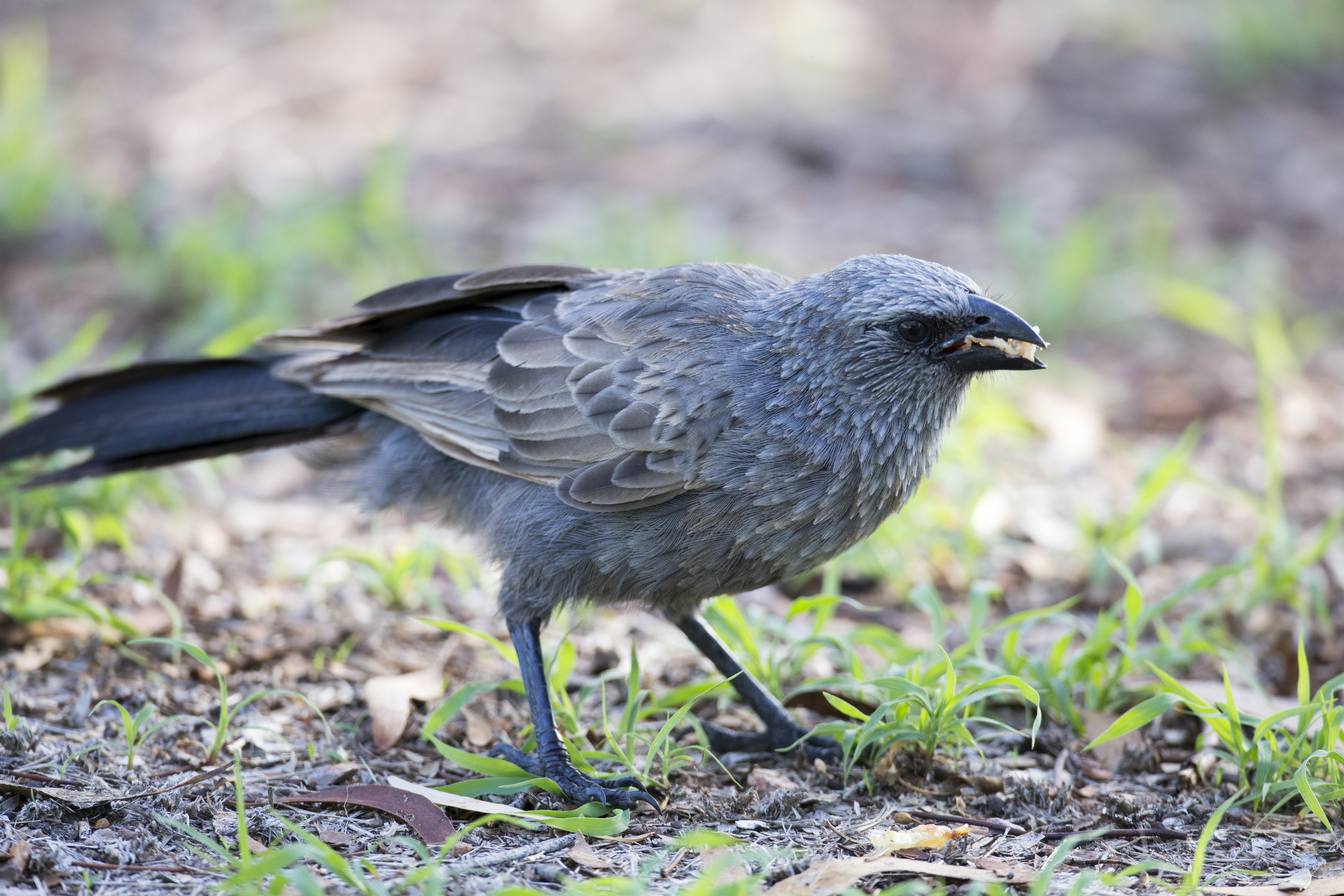 The whole flock were very cheeky, trotted in close, I dont think I was a pioneer in their territory somehow. Greenvale Qld